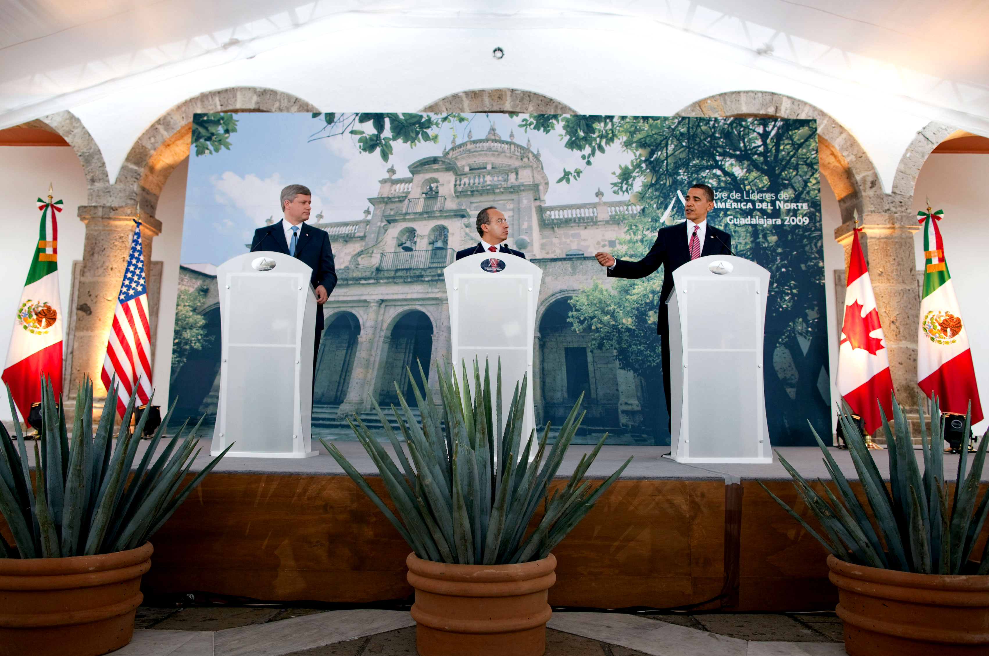 President Barack Obama, Canada's Prime Minister Stephen Harper, and Mexico's President Felipe Calderon, take part in the press conference at the Cabanas Cultural Center during the North American Leaders' Summit in Guadalajara, Mexico, on Aug. 10, 2009.